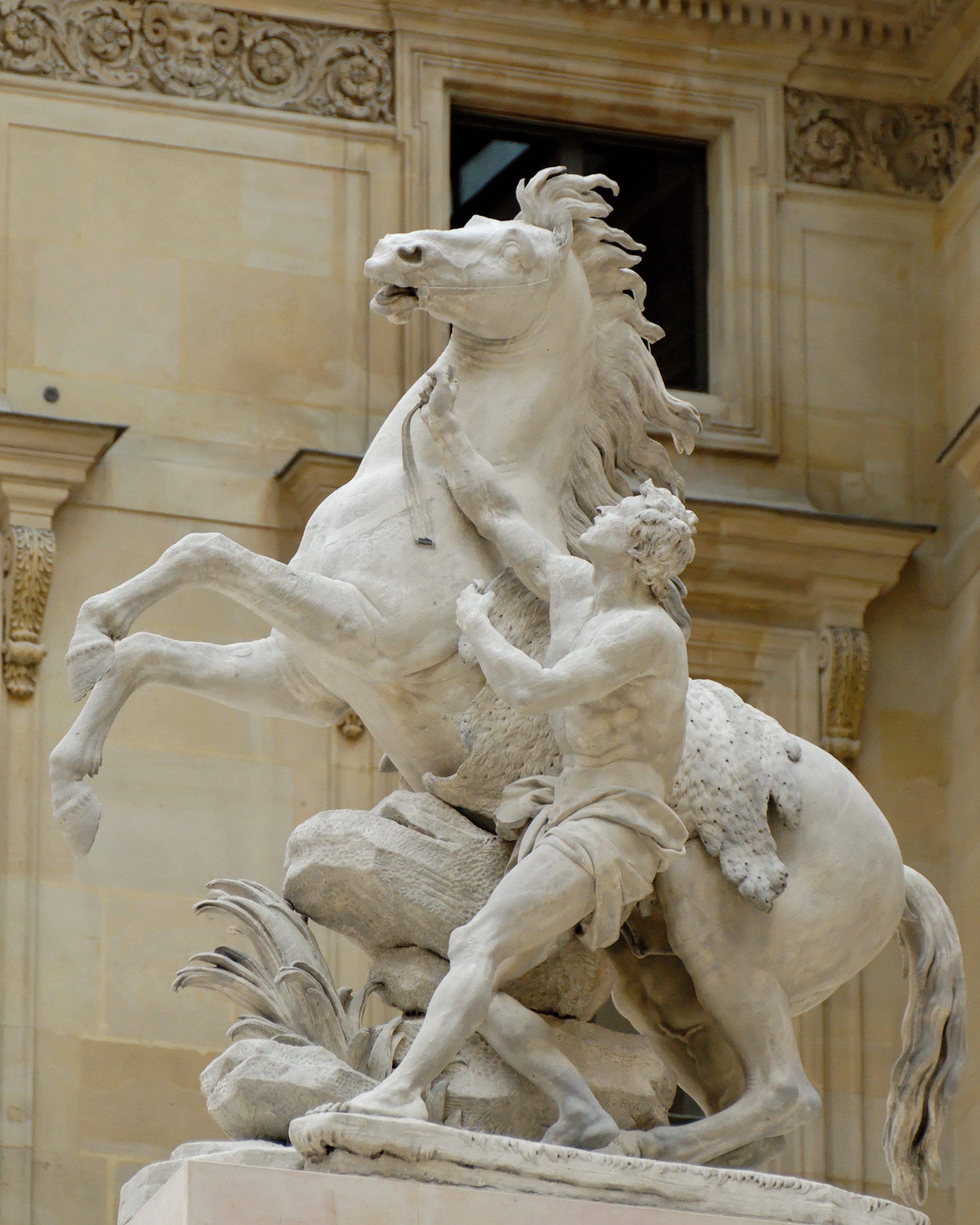 One of the so-called Marly Horses. Carrara marble, 1739-1745. Commissioned in 1739 for the park of the castle of Marly, the two sculptures were transfered in 1794 to the entrance to the Champs-Élysées in Paris and replaced by cement copies in 1985.